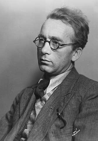 Danish-Norwegian novelist Aksel Sandemose.